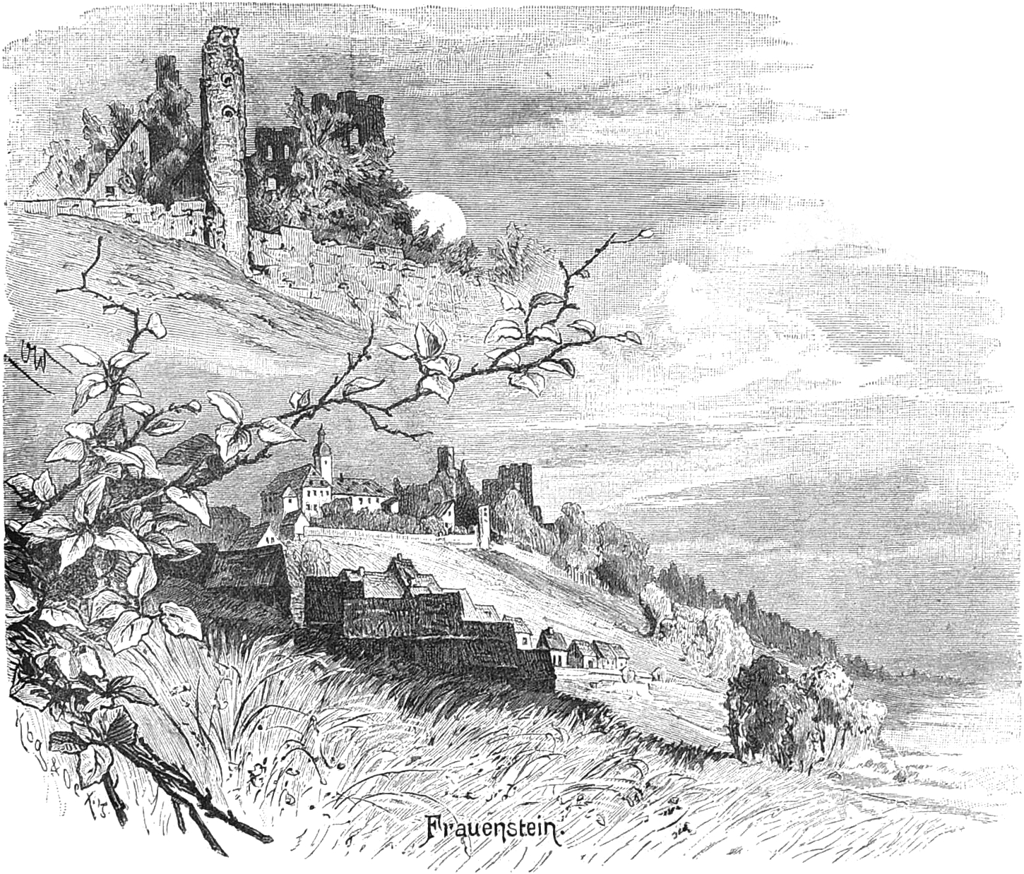 caption: "Frauenstein."